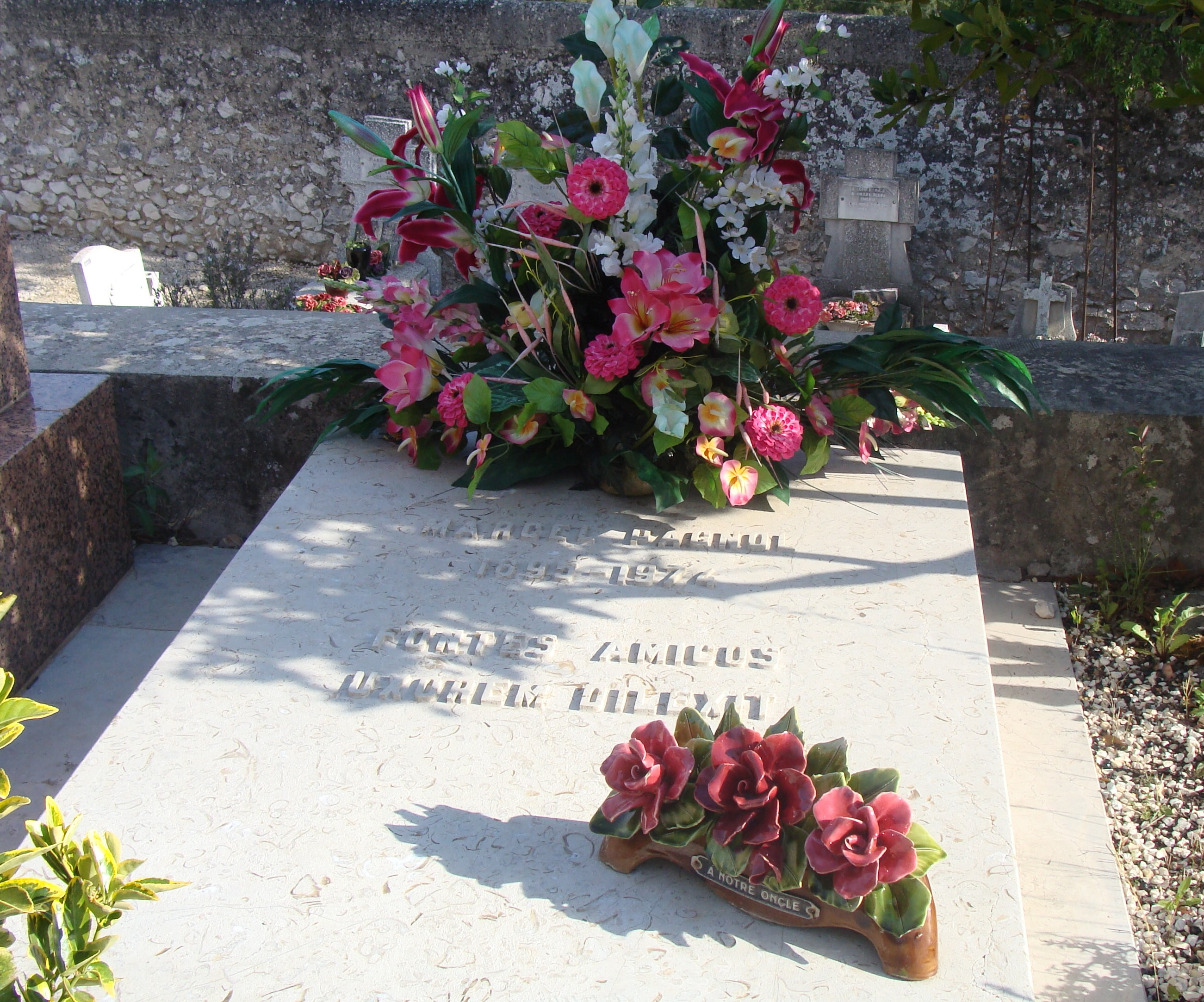 The tombstone of Marcel Pagnol's grave in La Treille cemetery. The latin inscription may be translated as "He loved springs, friends, and his wife".